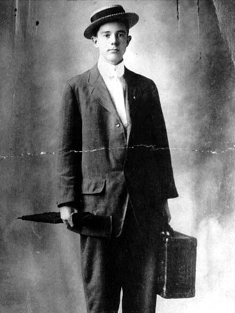 Huey Long as a traveling salesman c. 1910 - 1914